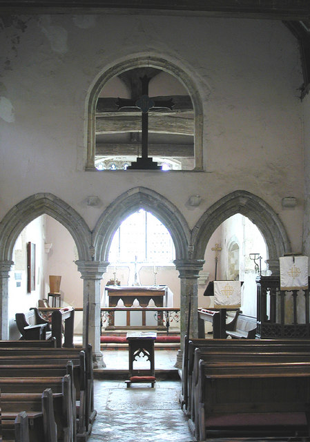 Inside the nave of St Mary's parish church, Capel le Ferne, Kent, looking east to the chancel